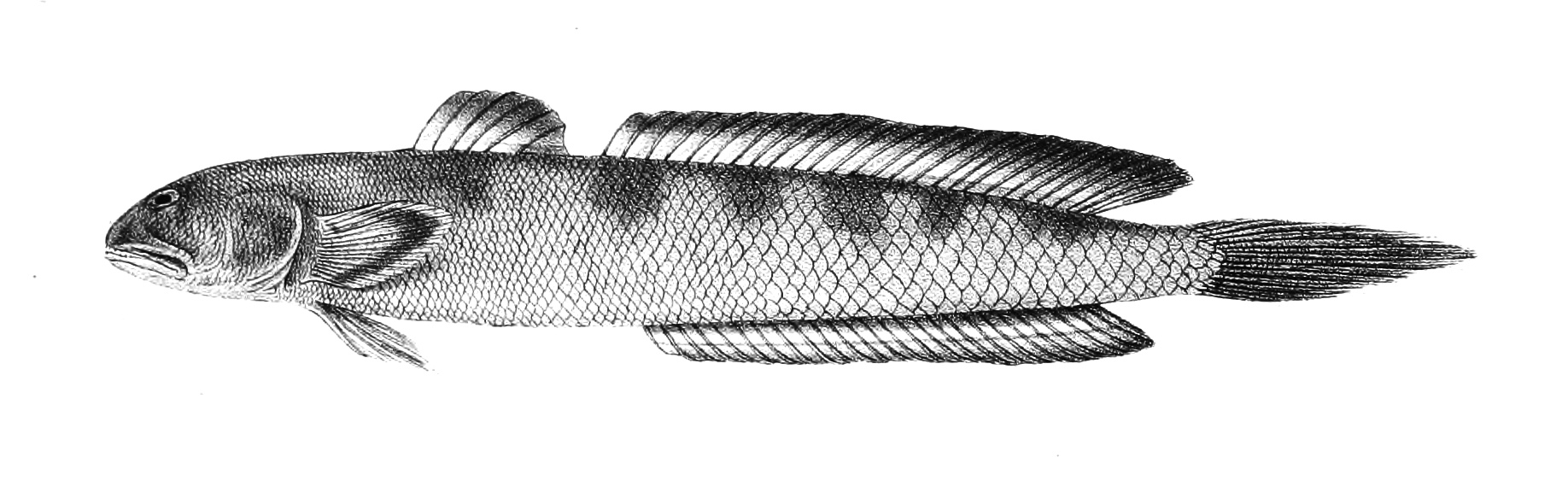 Parapocryptes serperaster syn. Apocryptes serperasterThe species names / identity need verification. The original plates showed the fishes facing right and have been flipped here. Apocryptes serperaster